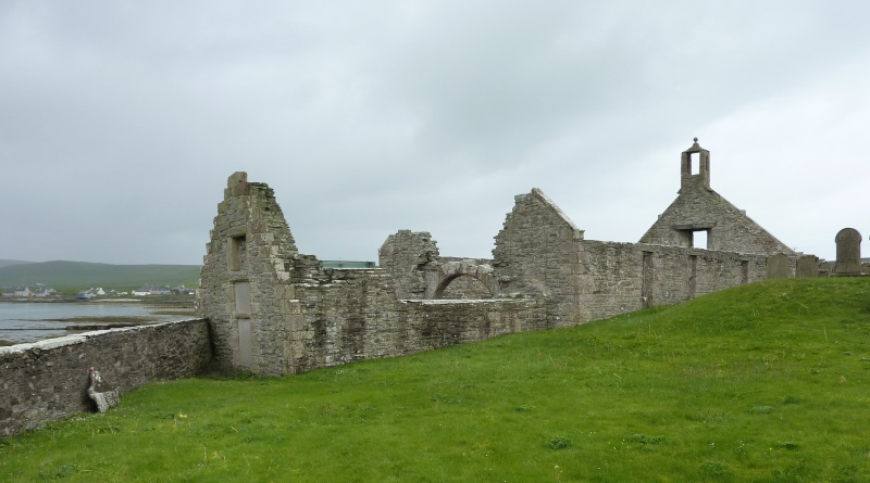 Pierowall Church, Pierowall, Westray, Orkney, Scotland. View from the north.